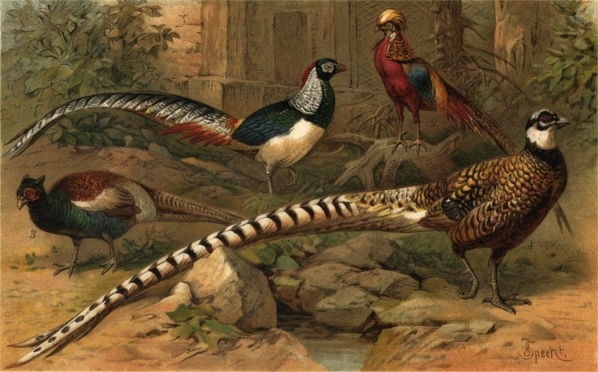 Amherstfasanen Phasianus amherstiae (now Category - Chrysolophus amherstiae) Guldfasanen (Phasianus pictus (now Category - Chrysolophus pictus) Brokiga fasanen (Category - Phasianus versicolor) Kungsfasanen Phasianus reevesi (now Category - Syrmaticus reevesii)